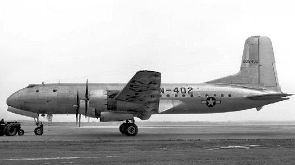 Douglas C-74 Globemaster 42-65402 (c/n 13913) scrapped at Davis Monthan AFB in 1965